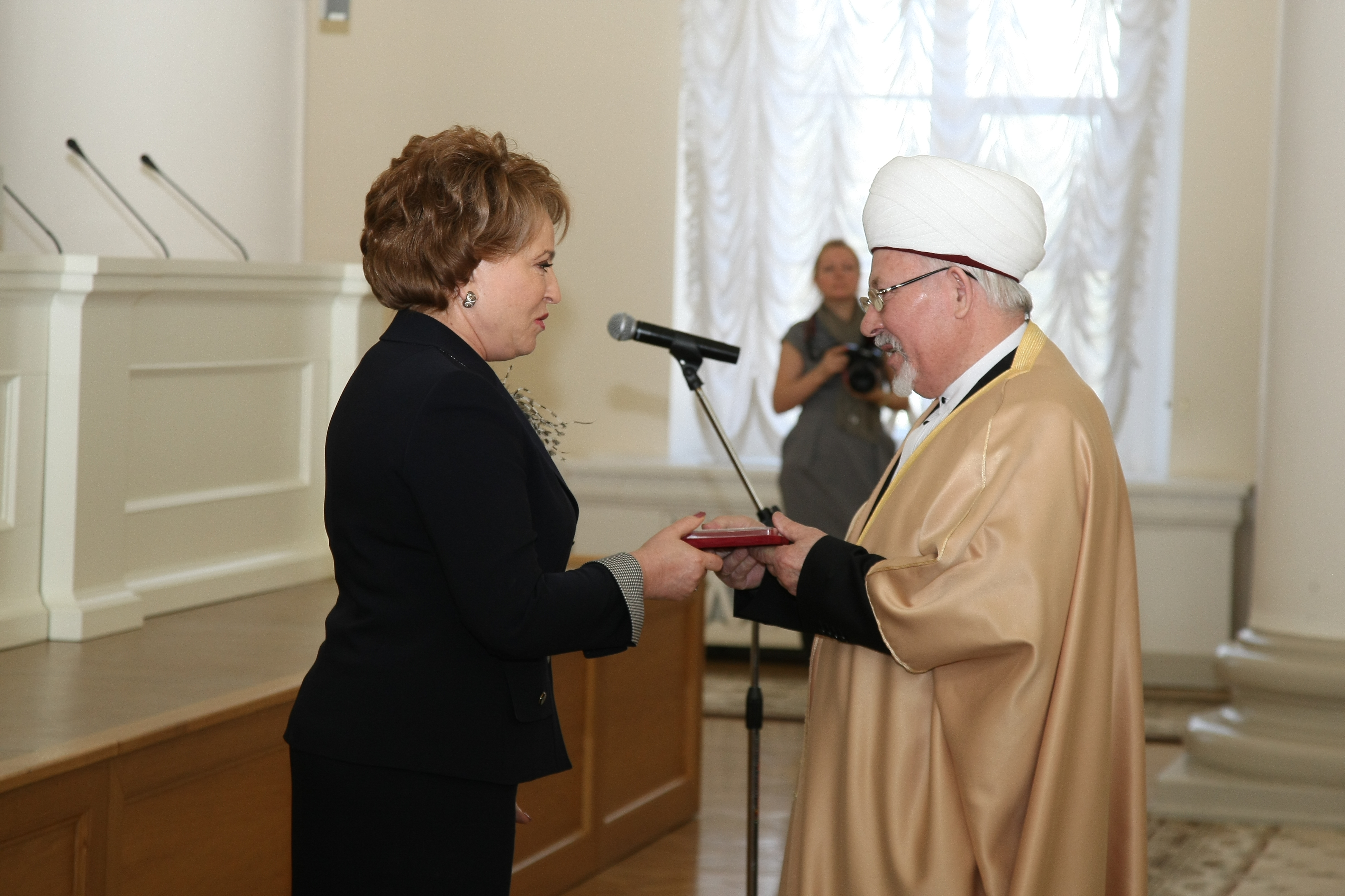 на вручении государственной награды